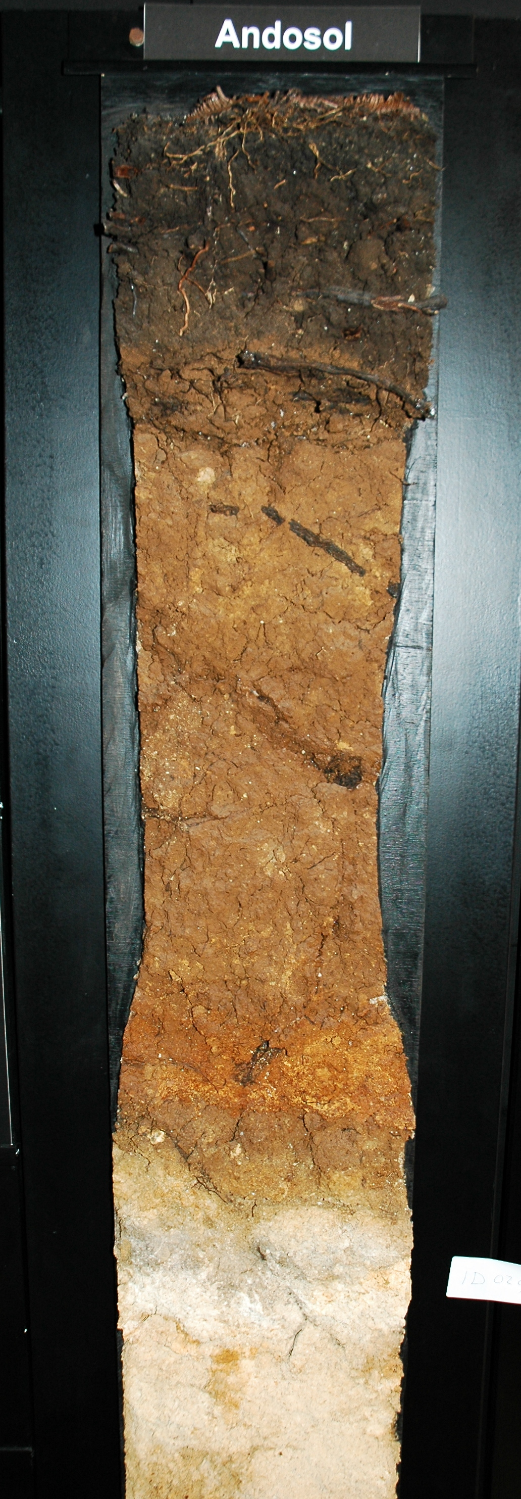 Soil profile of a Andosol